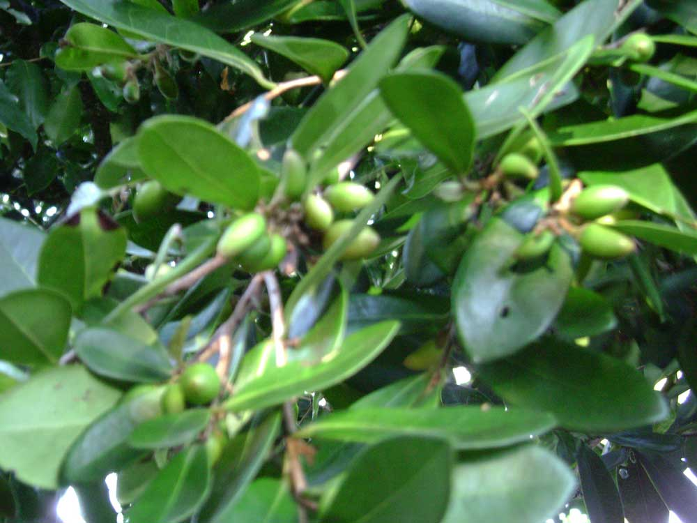 Diospyros ferrea (Willd.) Bakh.; (kanume) a tree in Tonga